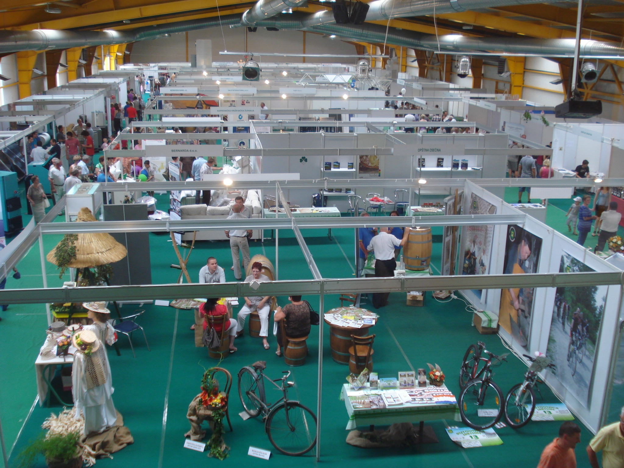 MESAP 2012. trade fair in Nedelišće, Medjimurje County, Croatia - exhibition hall overview